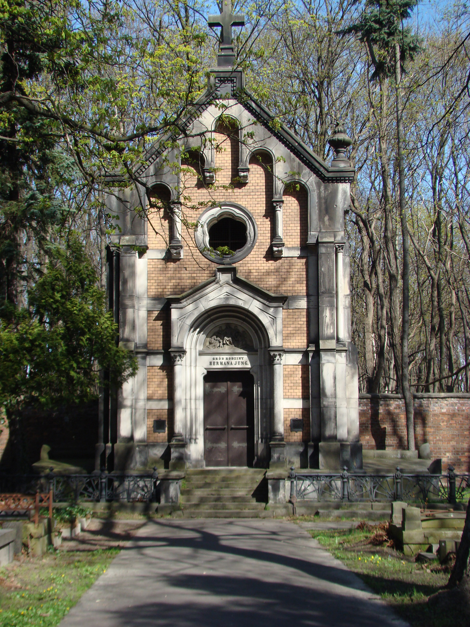 Evangelical-Augsburg_Cemetery Warsaw, Hermann Jung family vault